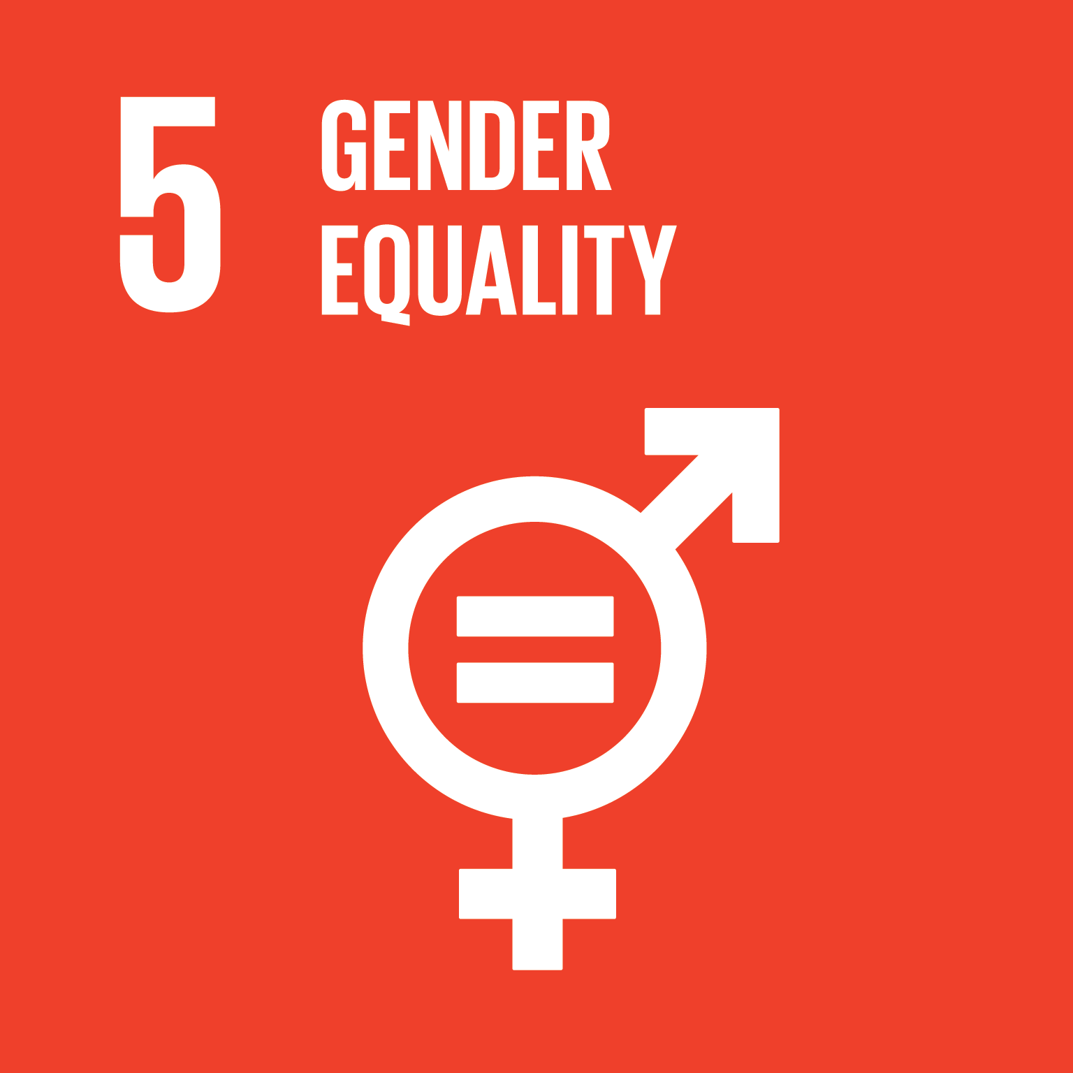 SDG5 Gender EqualityRomână: Obiectivul de dezvoltare durabilă nr. 5: Egalitate între Sexe (în engleză)